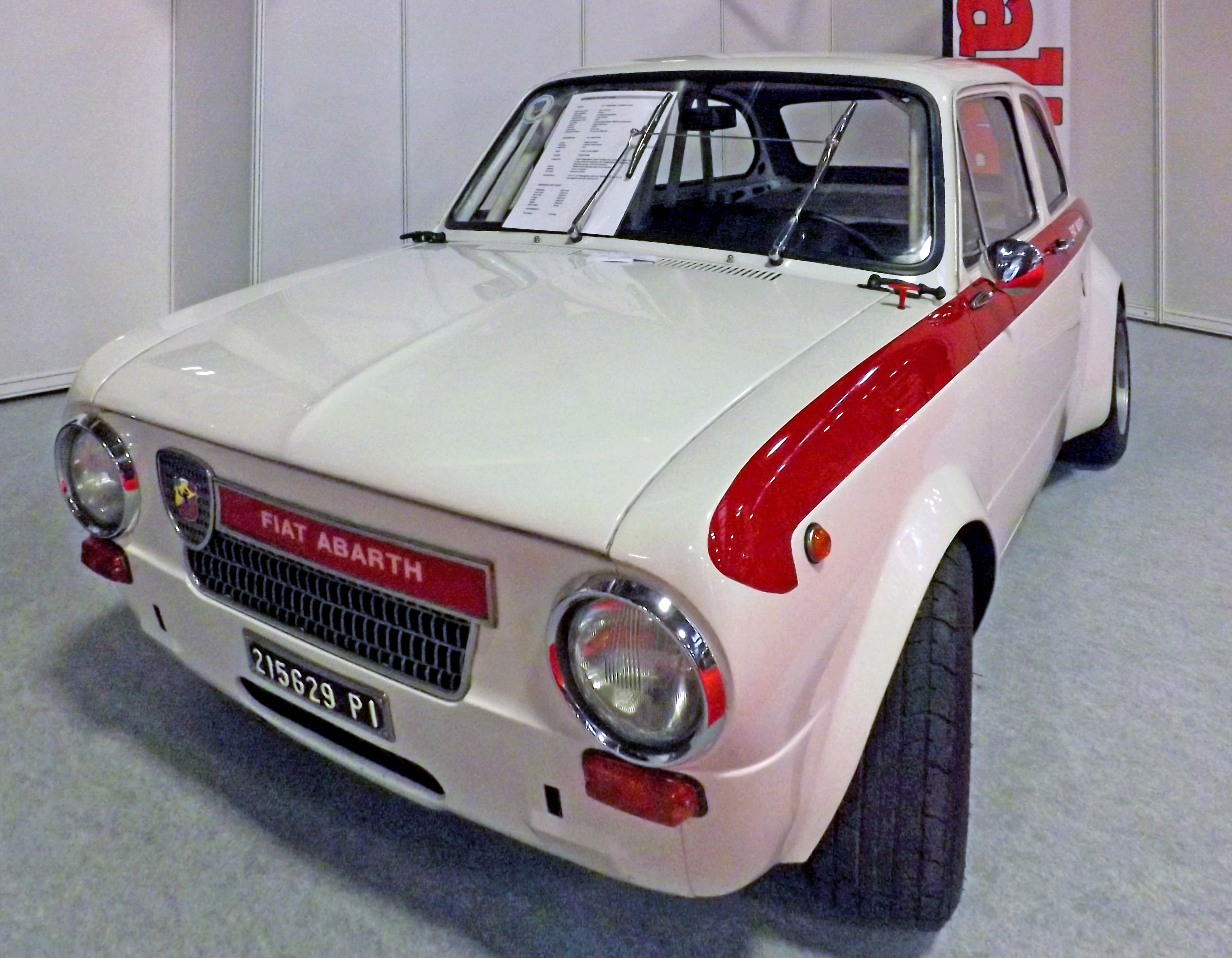 Gorgeous.